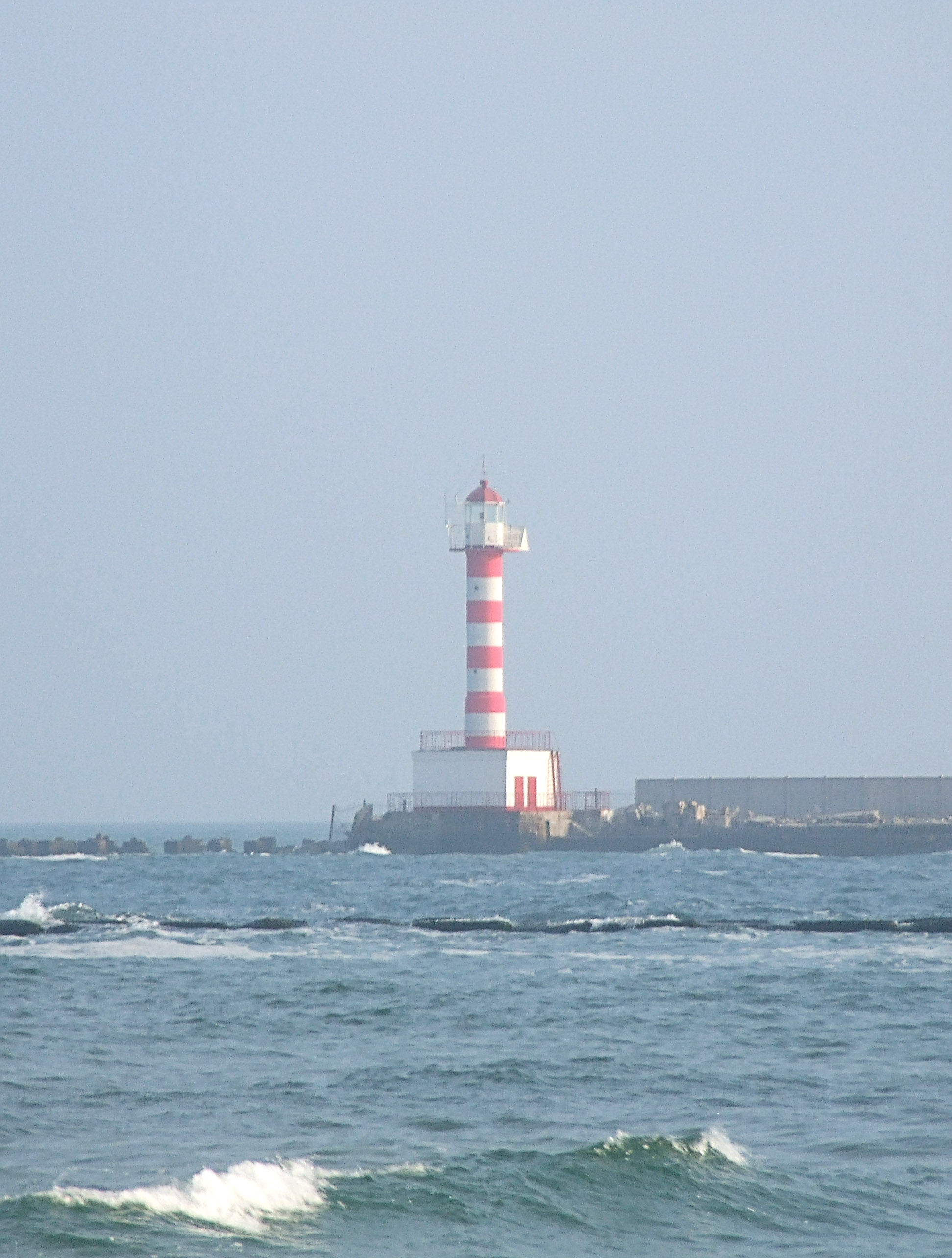 The lighthouse in Chornomorsk Odessa Oblast, Ukraine